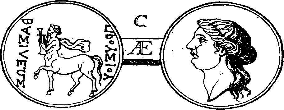 Fleuron from book: Del tesoro britannico. Parte prima. Overo il museo nummario. Ove si contengono le medaglie greche e latine in ogni metallo e forma, non prima pubblicate. Delineate e descritte da Nicola Francesco Haym ...